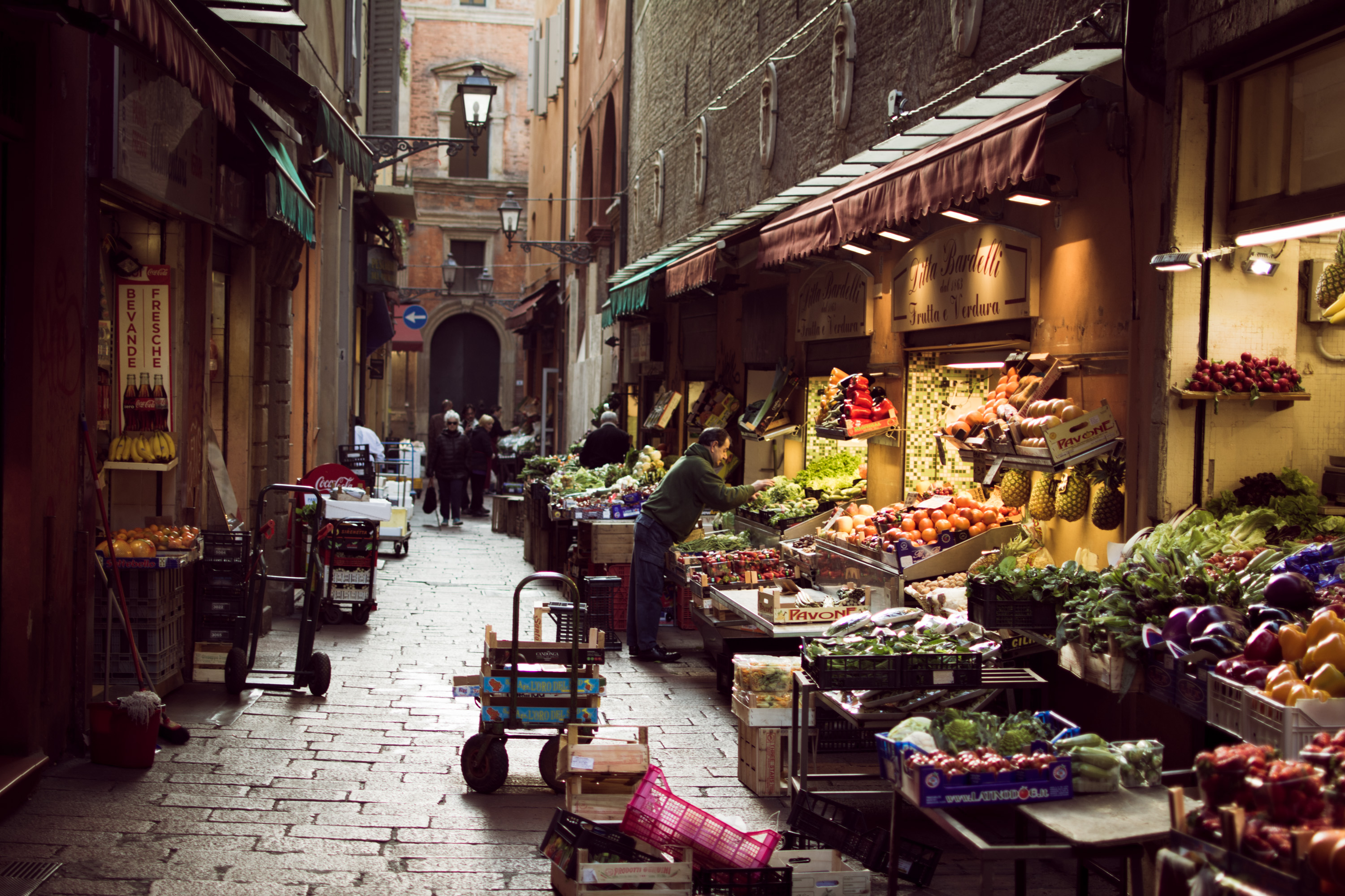 Via Pescherie Vecchie in Bologna, featuring its colorful open-air market.